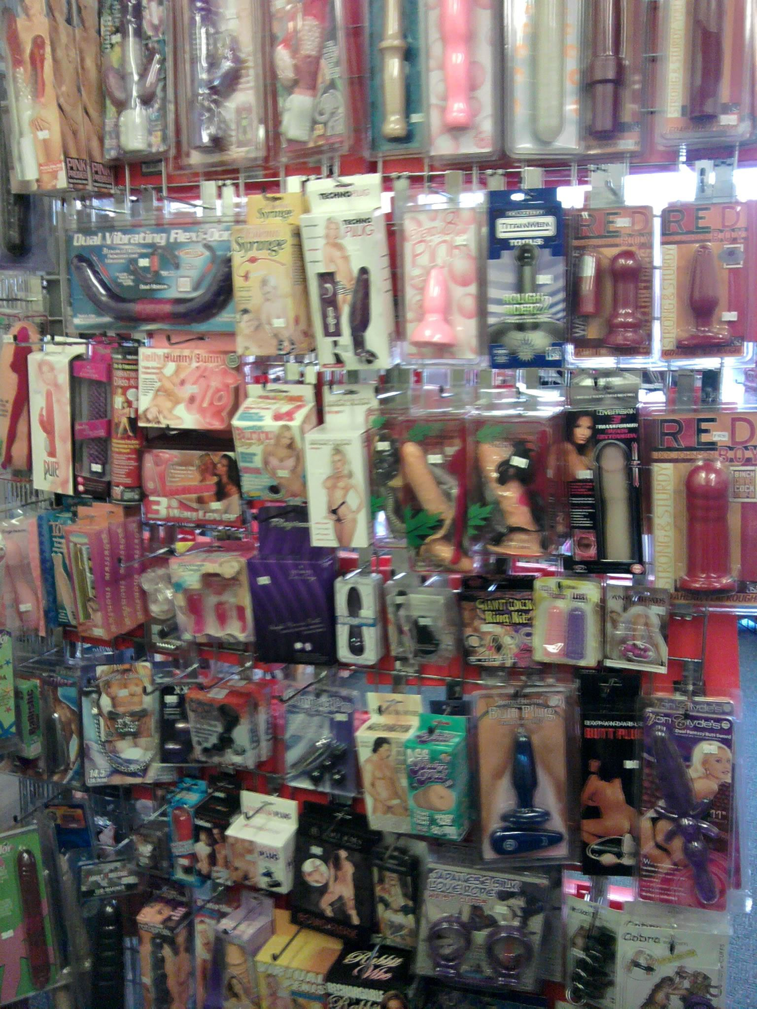 Adult toys and novelties